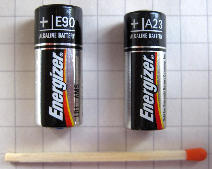 A comparison between N and A23 batteries. With a matchstick. Background is a 7mm grid.